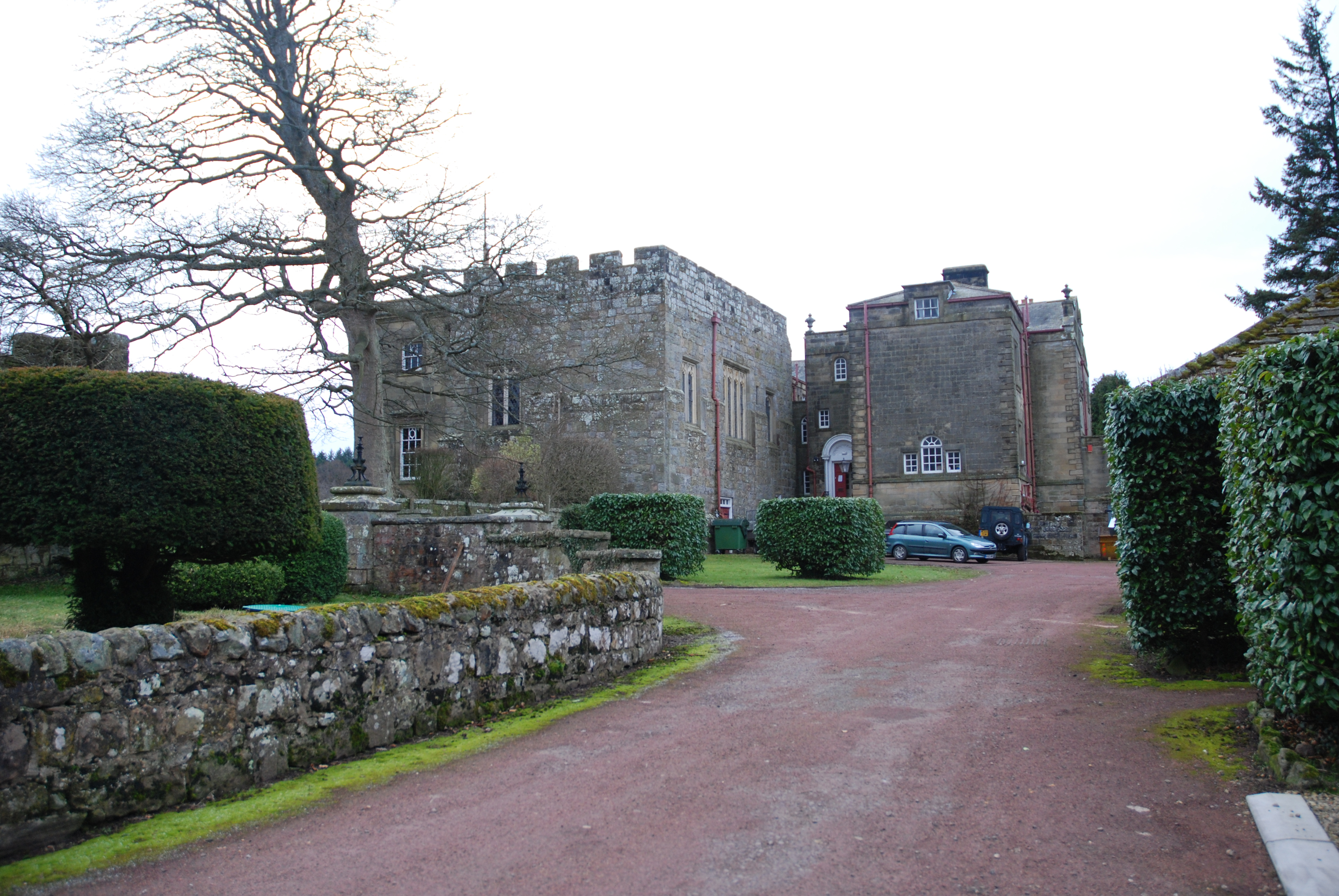 The rear of Lemmington Hall Anlwick